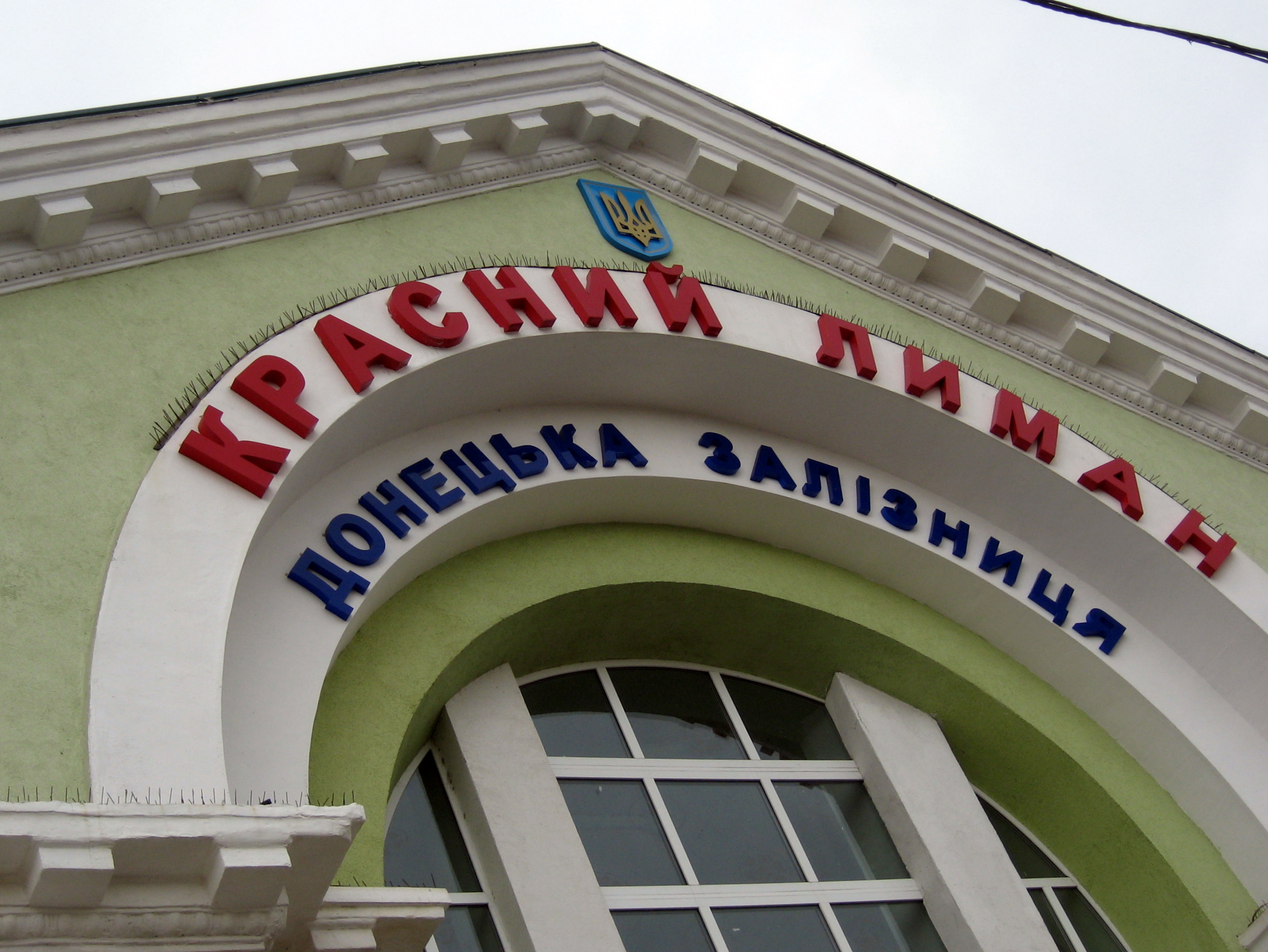 A train station in Krasnyi Lyman